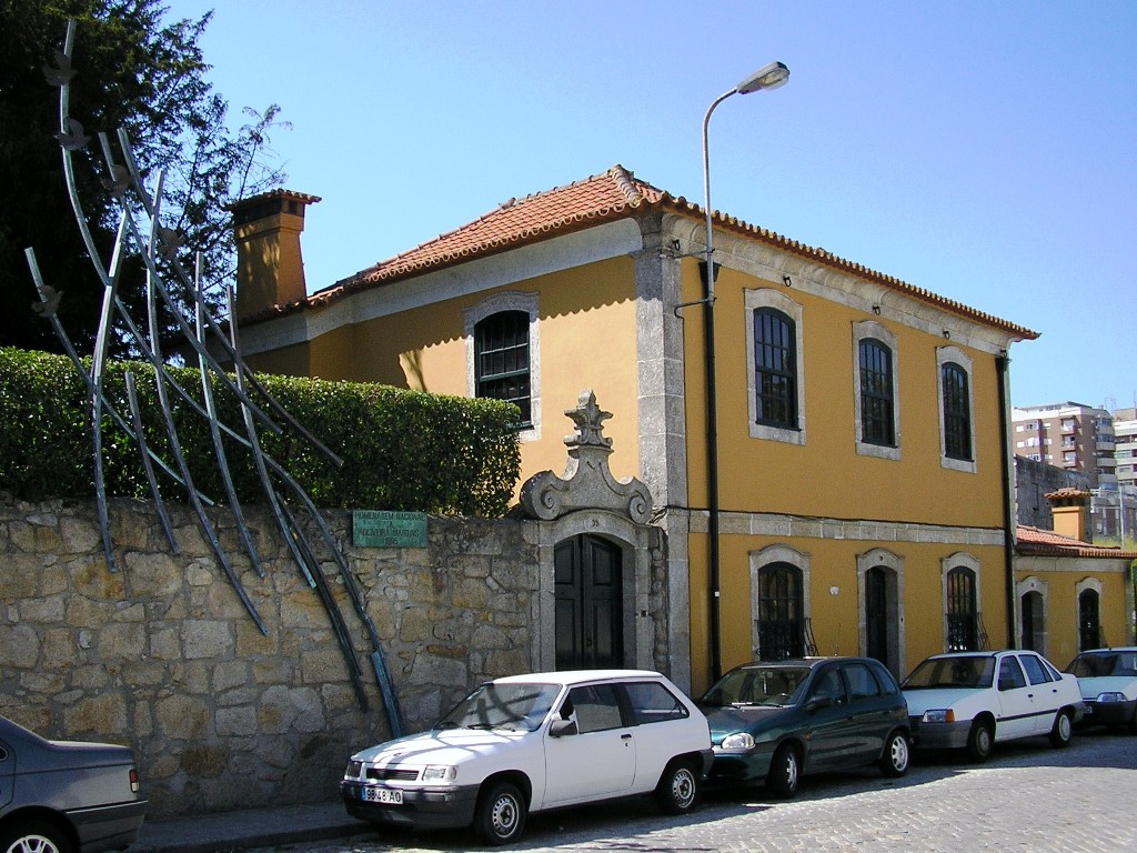 "House of the Stone" or "House of the Iron Waters". On the left, sculpture in memory of Joaquim Pedro de Oliveira Martins (1995) by the sculptor José Rodrigues.